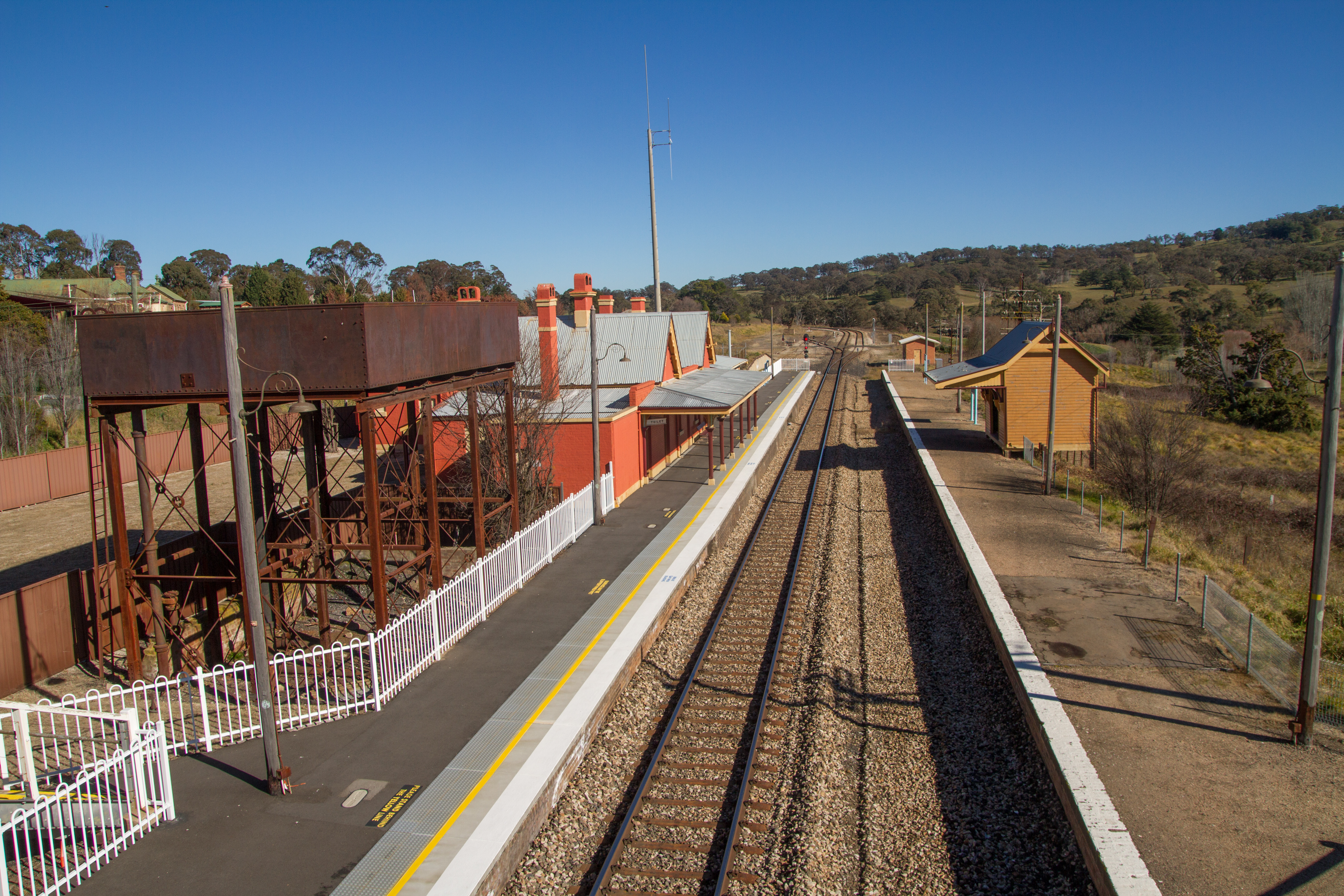 Tarana Railway Station, New South Wales